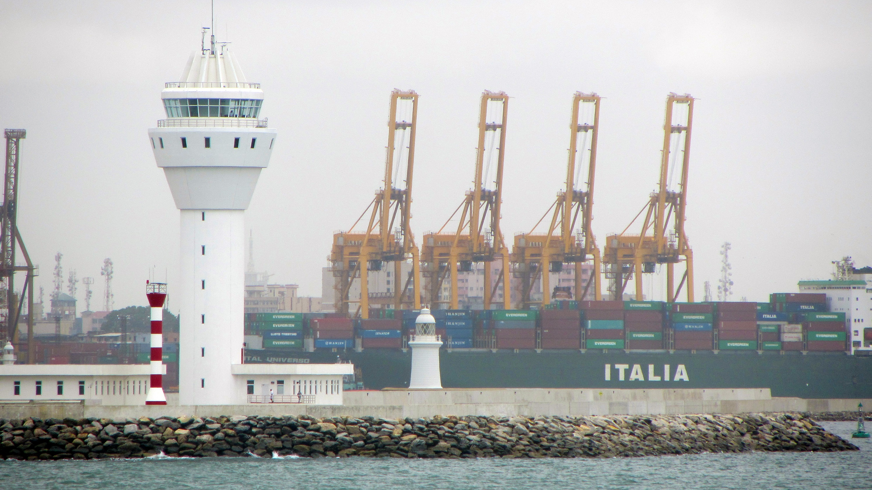 Ital Universo at the Colombo Harbour, with the harbour control tower in the foreground, and some container cranes in the background.